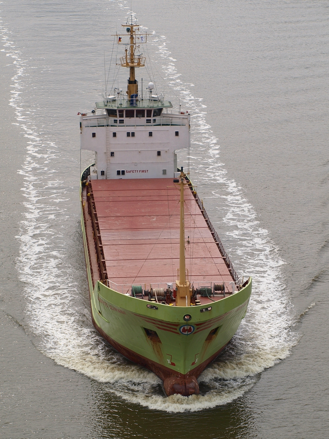 General cargo ship SIEGFRIED LEHMANN (IMO 8003931) built at J.J. Sietas Schiffswerft, Hamburg-Neuenfelde (Sietas type 109, yard № 869, launched: 02-12-1980, delivered: 30-12-1980) for Reederei Hans Lehmann, Lübeck, later names: 2011 JUHAYNNA, 2015 RAYAN; Kiel Canal, 15-08-2010.